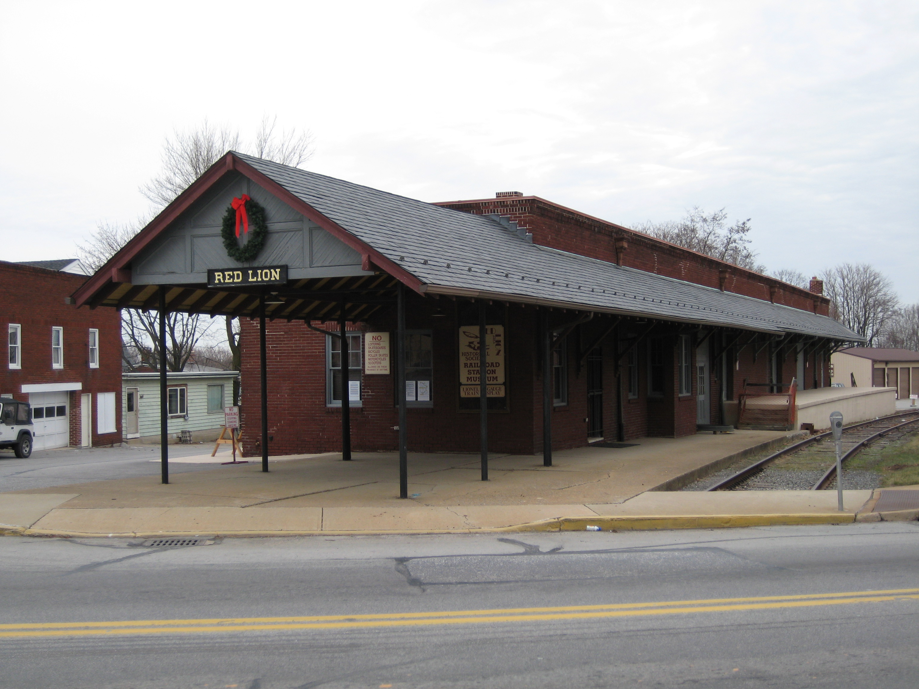 Former railroad station in Red Lion, Pennsylvania. Built by the Maryland and Pennsylvania Railroad, known affectionately as the Ma and Pa RR.